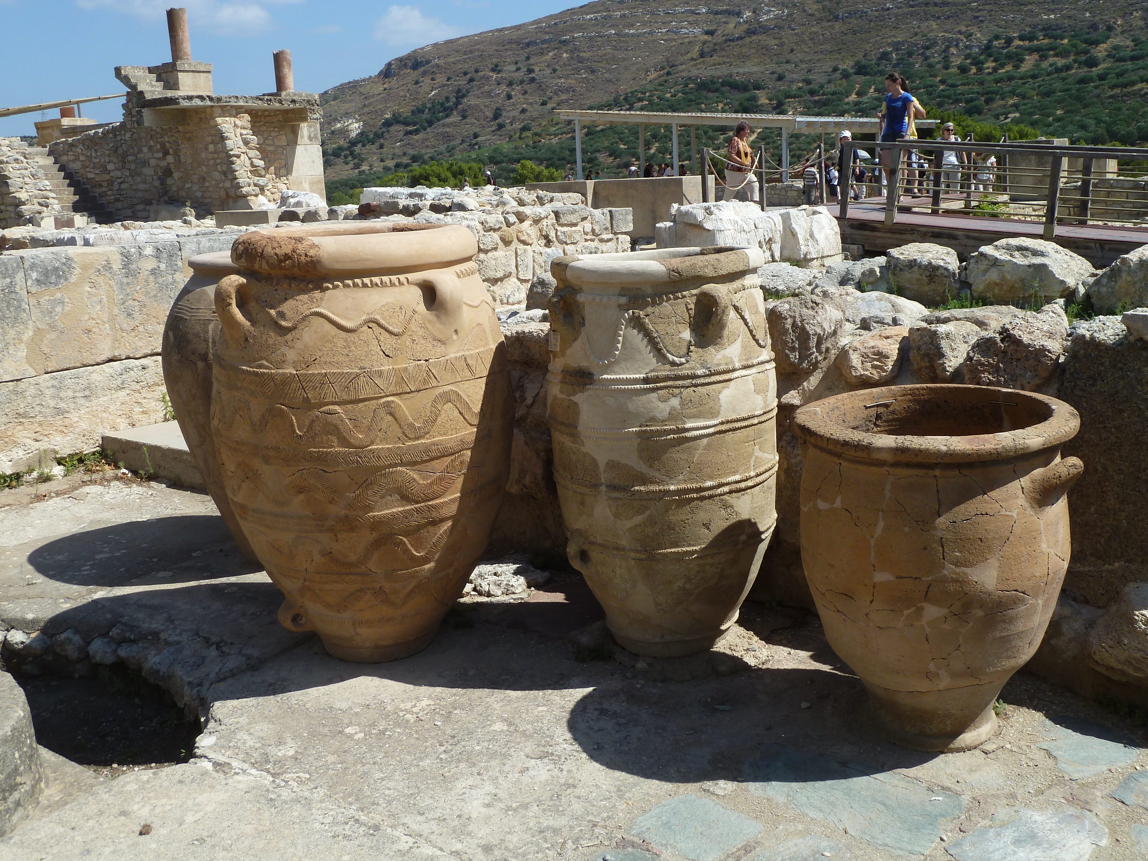 Minoean Pallace, Knossos, Crete, Greece